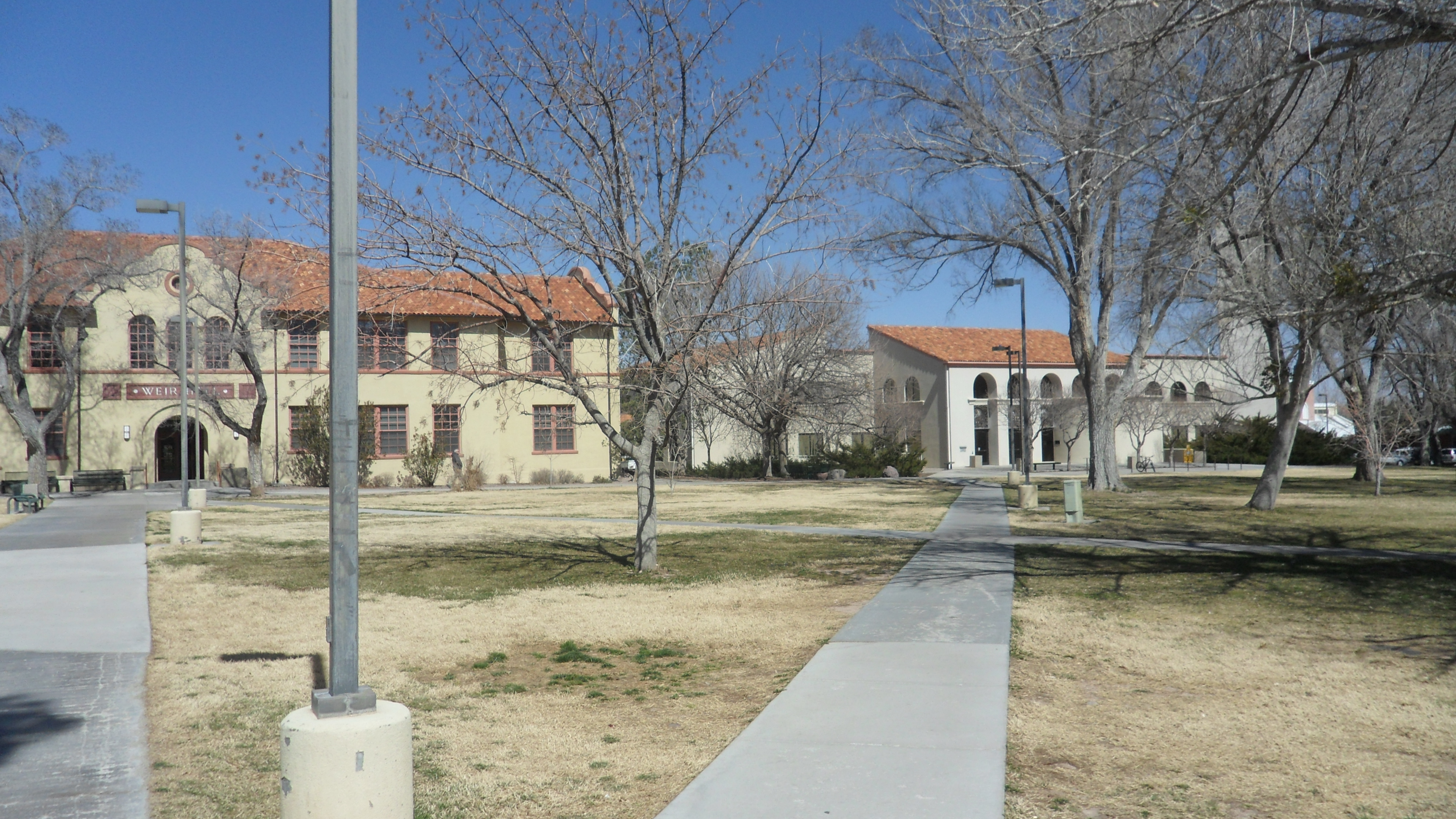 The campus of New Mexico Institute of Mining and Technology, or more commonly known as New Mexico Tech in Socorro, New Mexico.